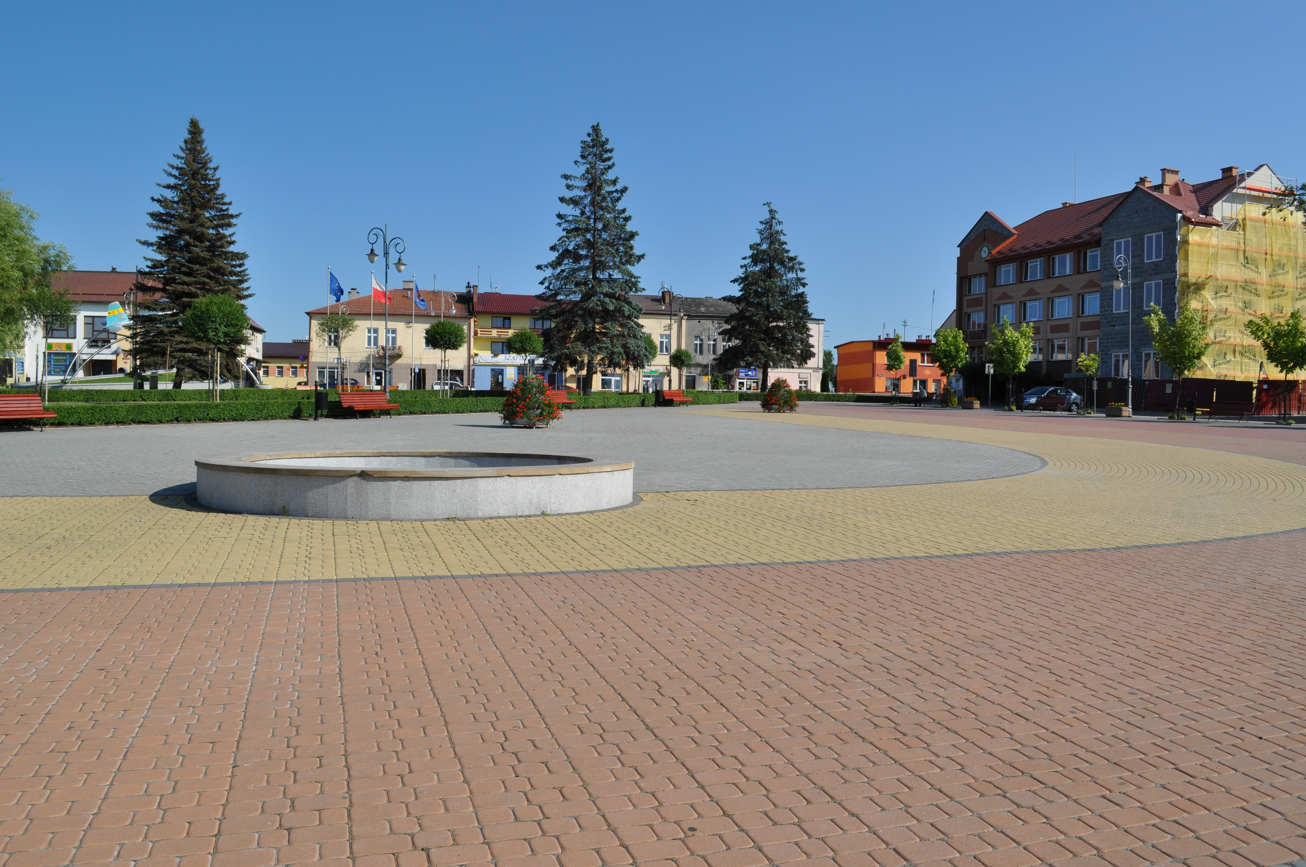 The market square in Radomyśl Wielki